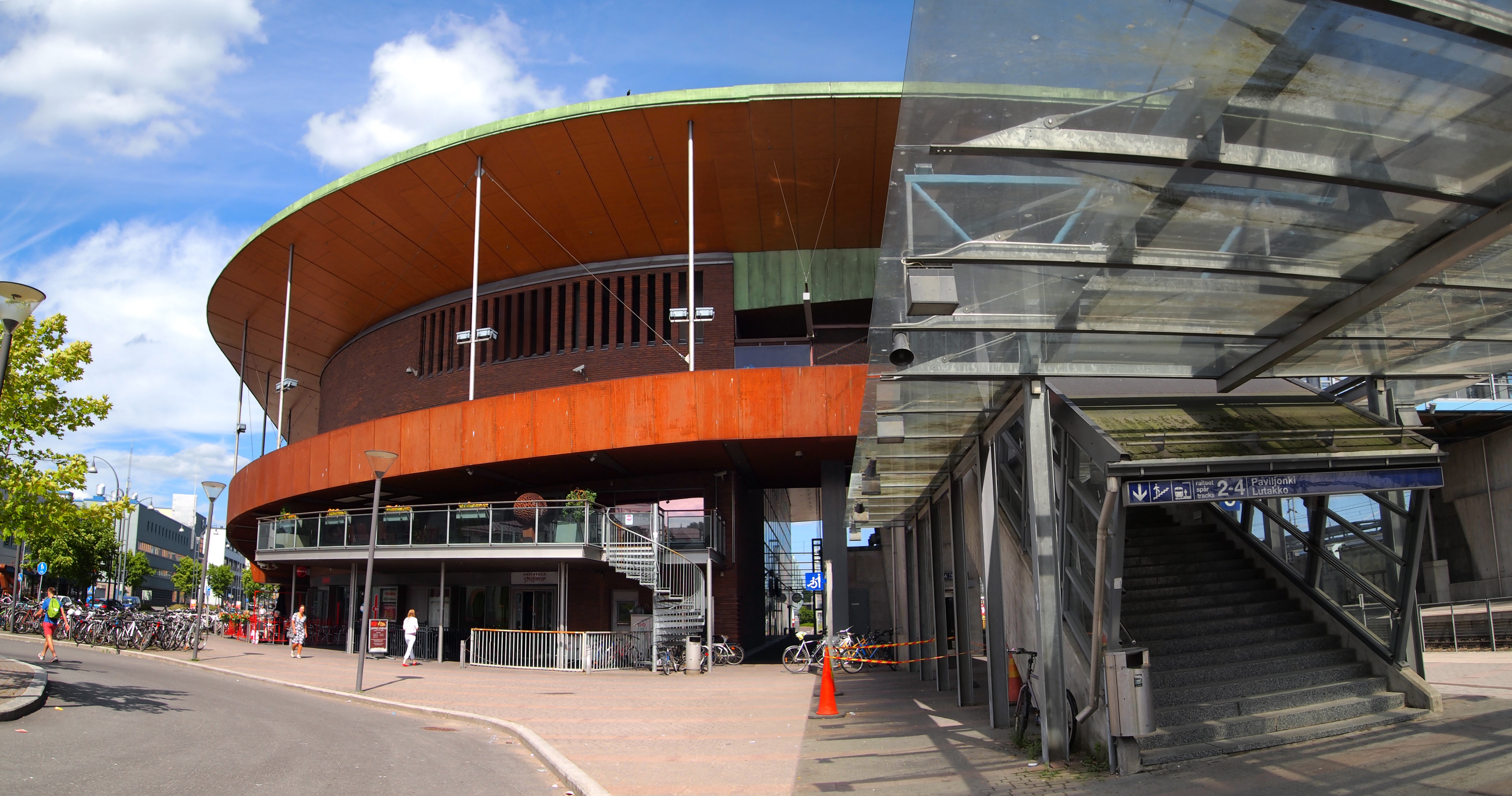 Travel centre of Jyväskylä.